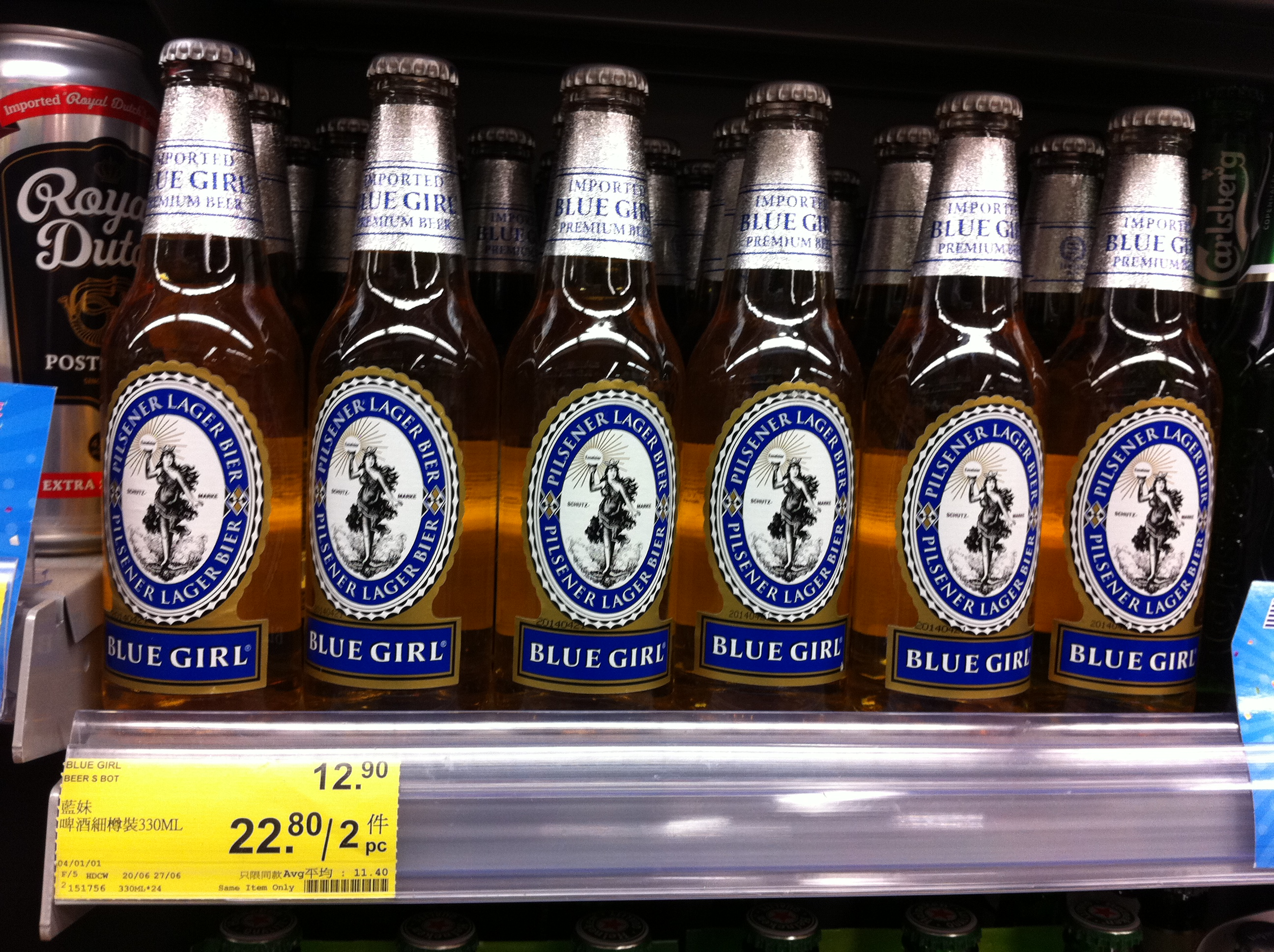 Parkn Shop supermarket, Hong Kong